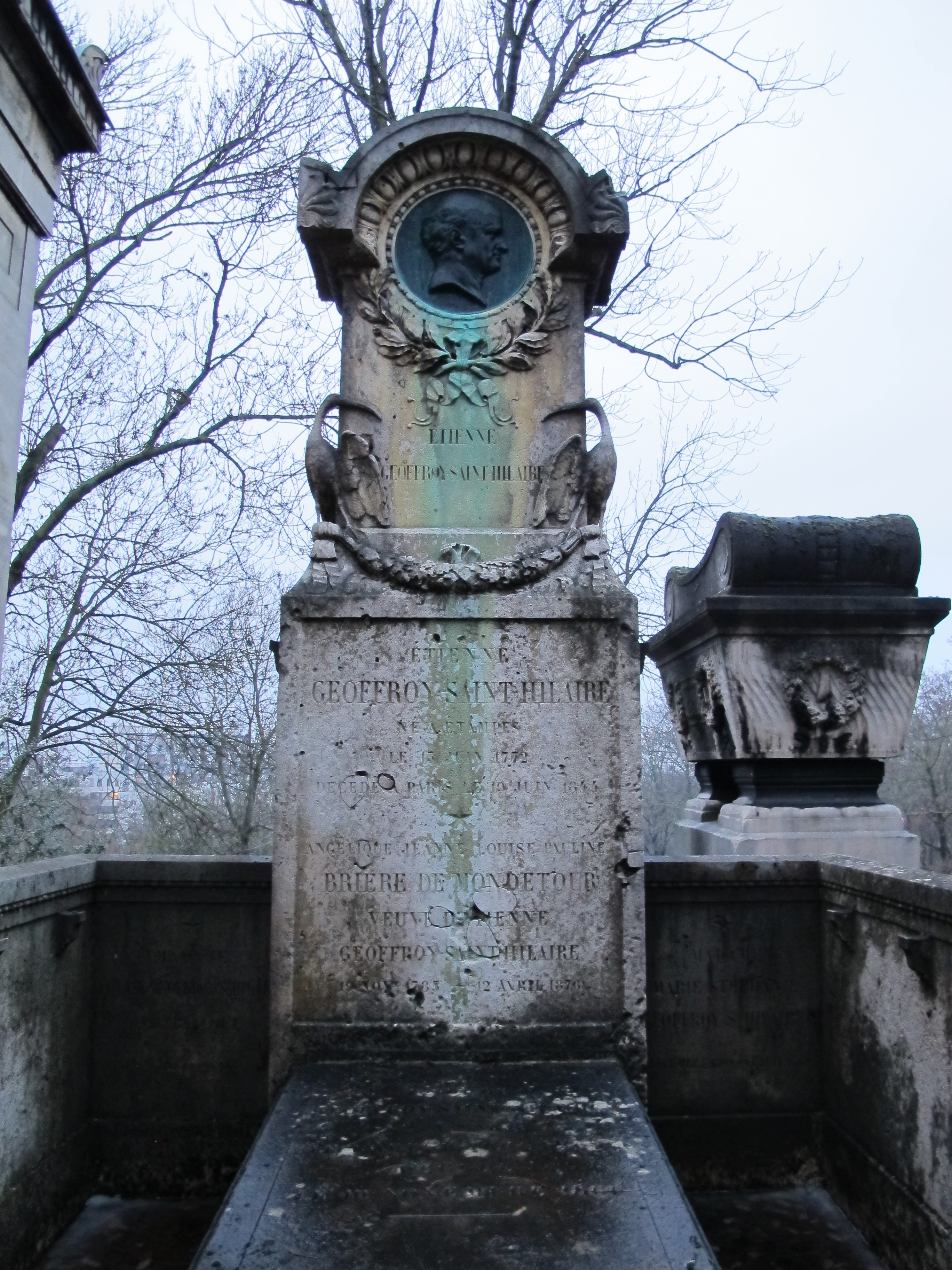 Gravestone of Étienne Geoffroy Saint-Hilaire at the Père-Lachaise cemetery (Paris). Taken on 29th december 2010.